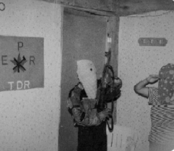 Militants of the EPR-TDR-EP during a plenary session